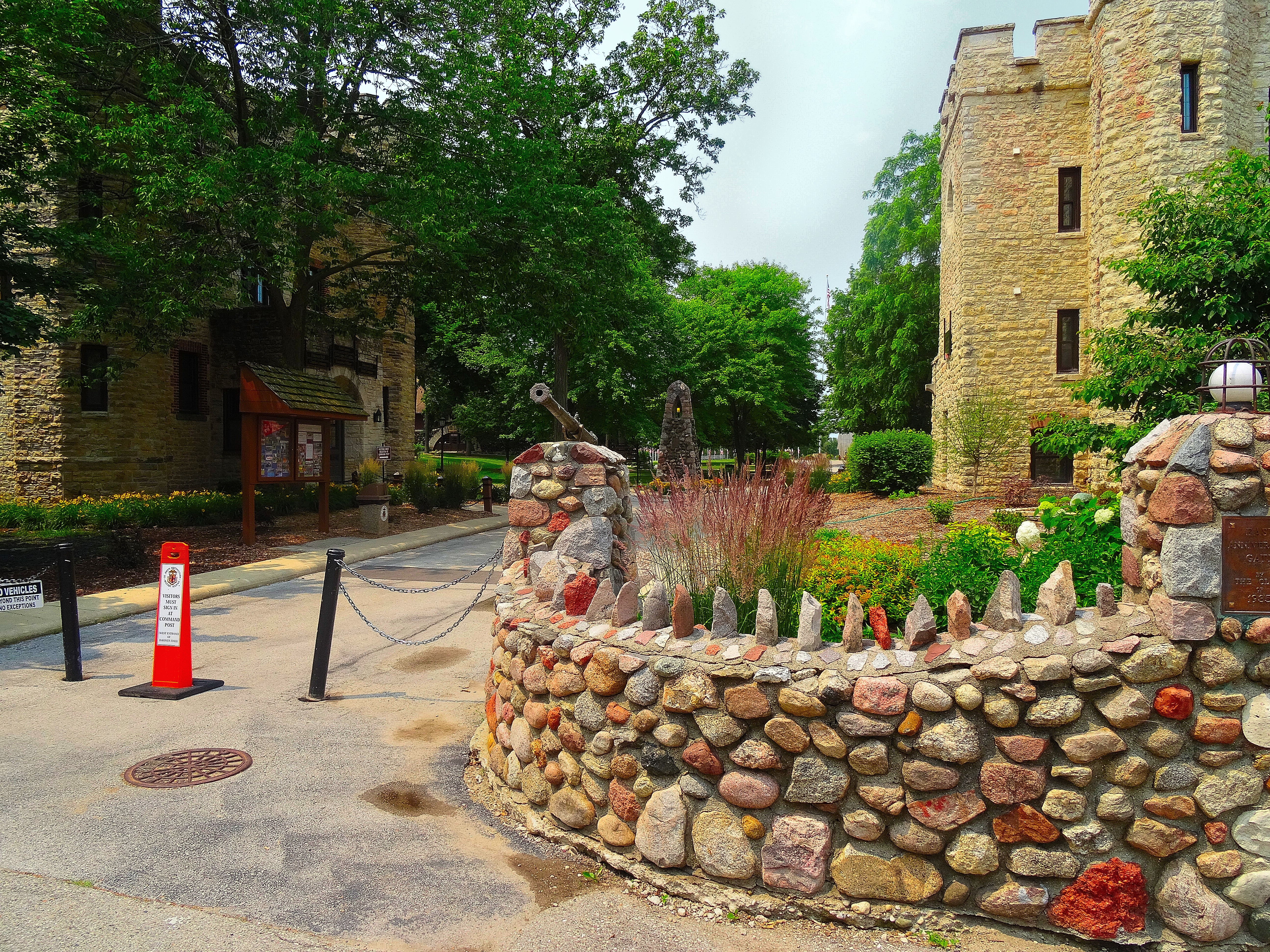 St. John's Northwestern Military Academy